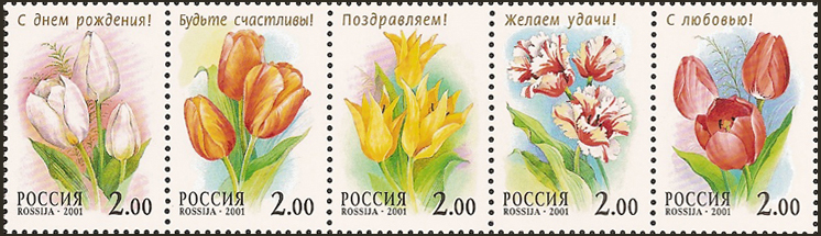 Stamps of Russia. Flora. Tulips. 2001